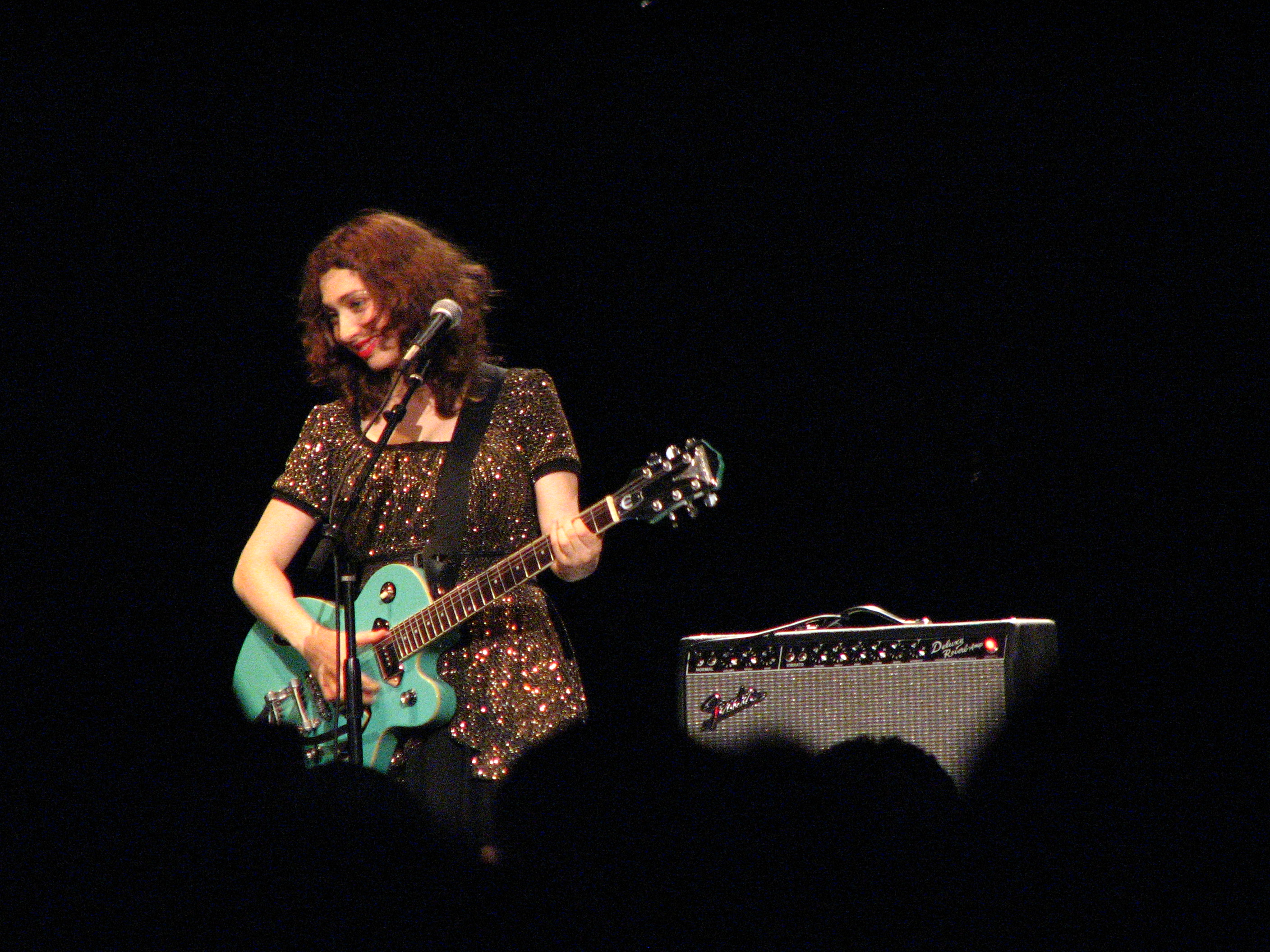 Regina Spektor performing live at the Hammerstein Ballroom on 2006-10-16